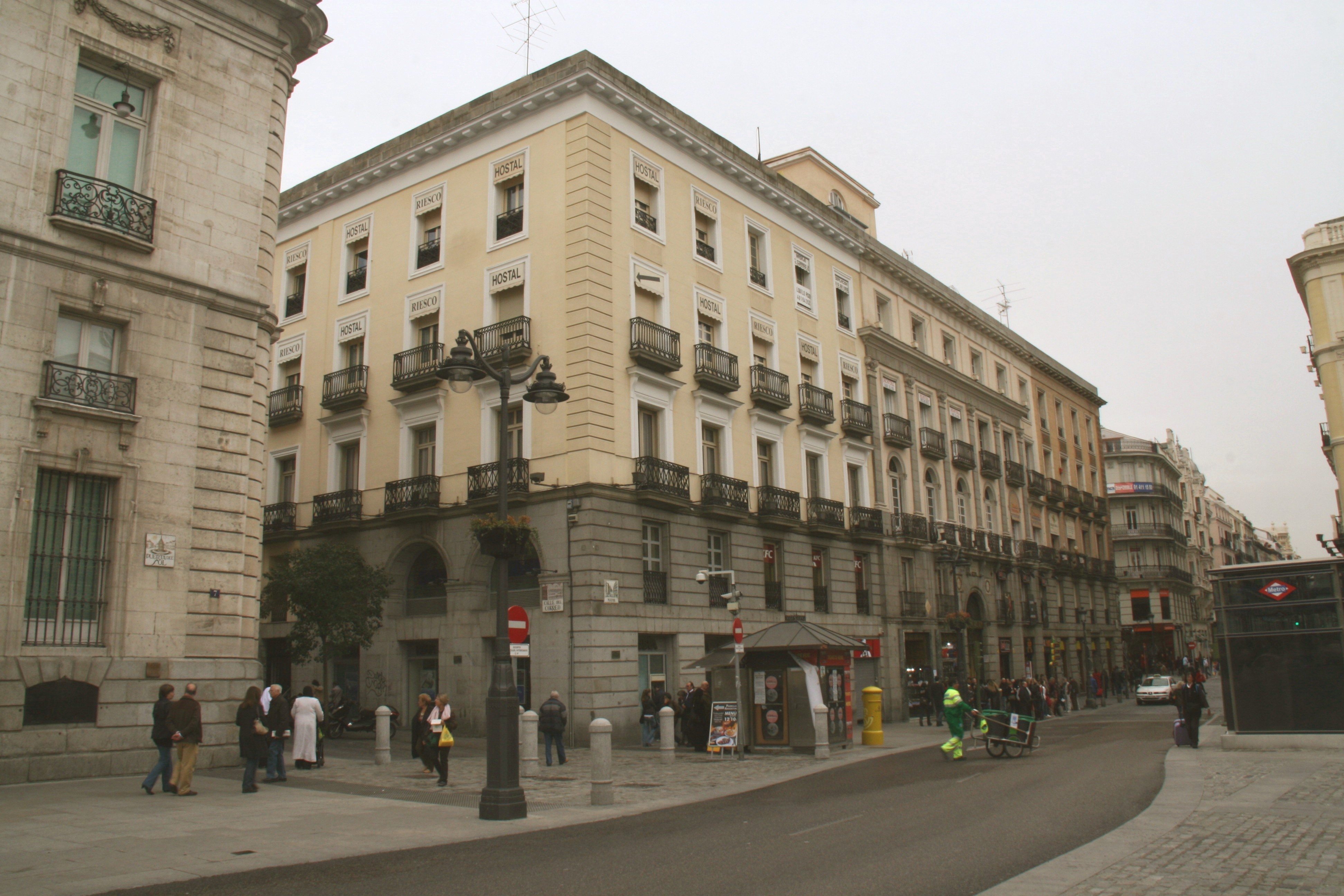 Casa Cordero - 2010